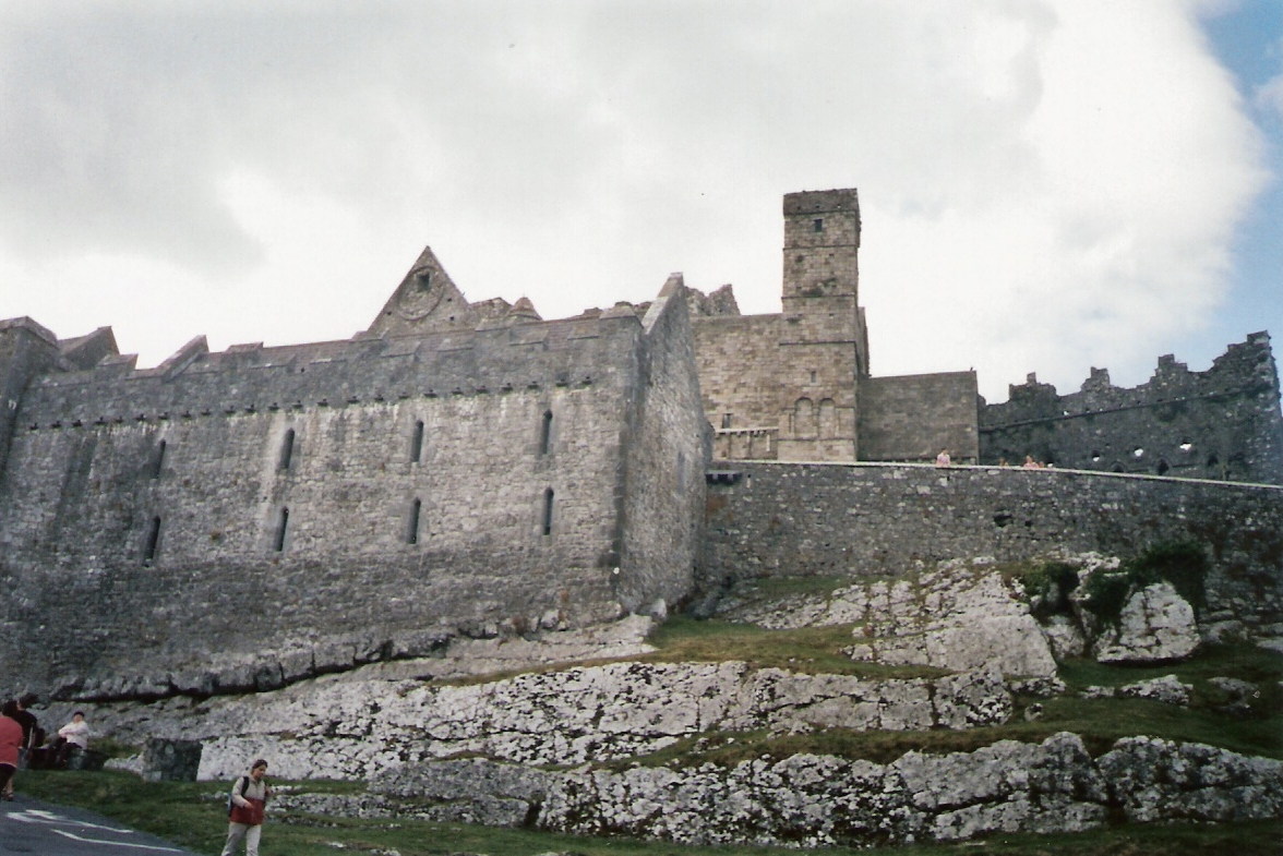 rock of cashel, ireland